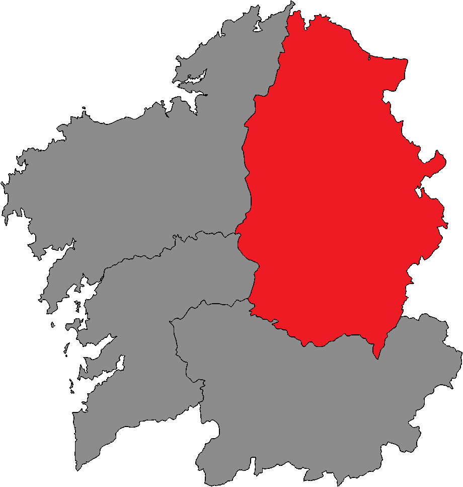 Galician Parliament district of Lugo.